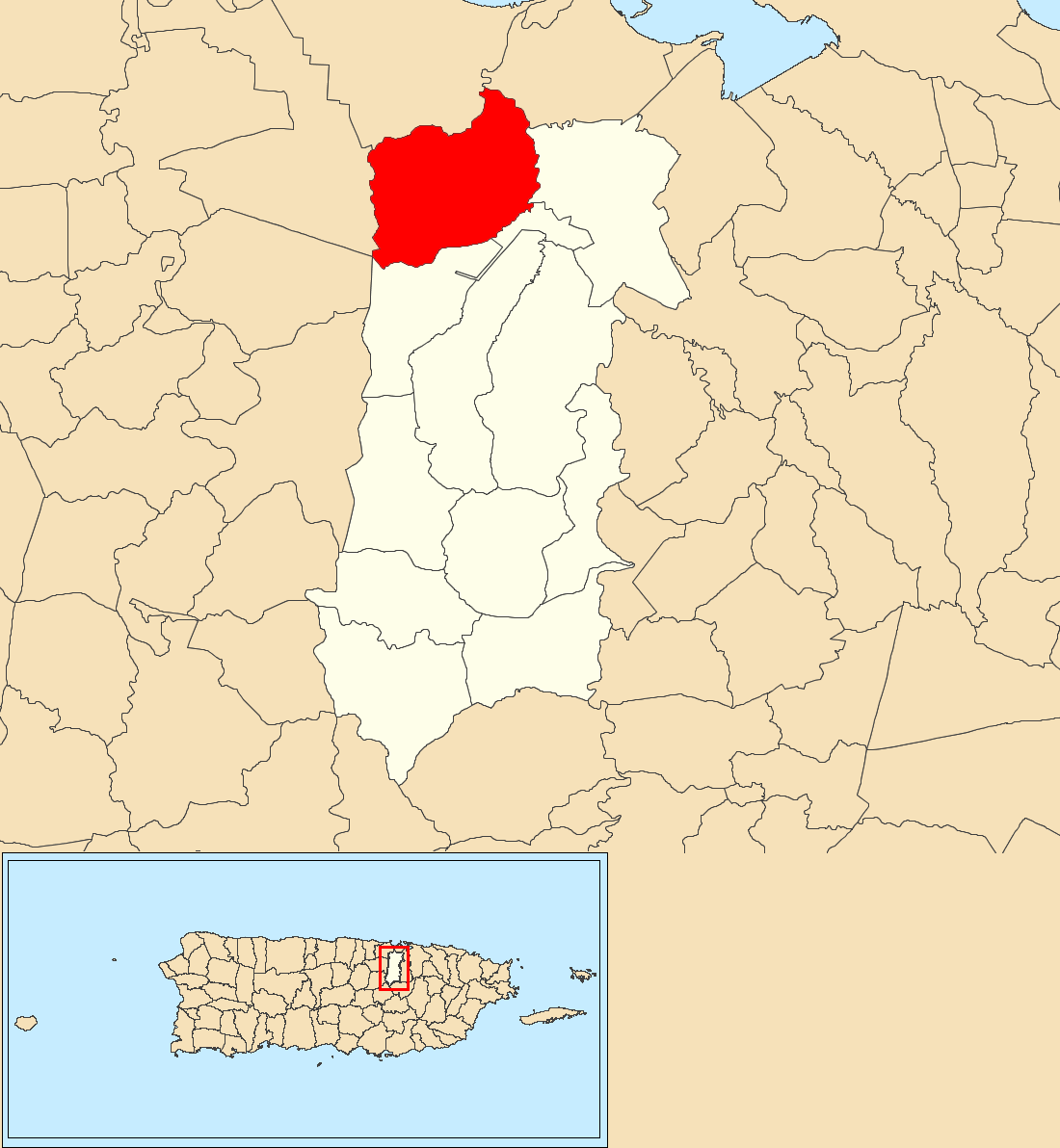 Hato Tejas, Bayamón, Puerto Rico locator map